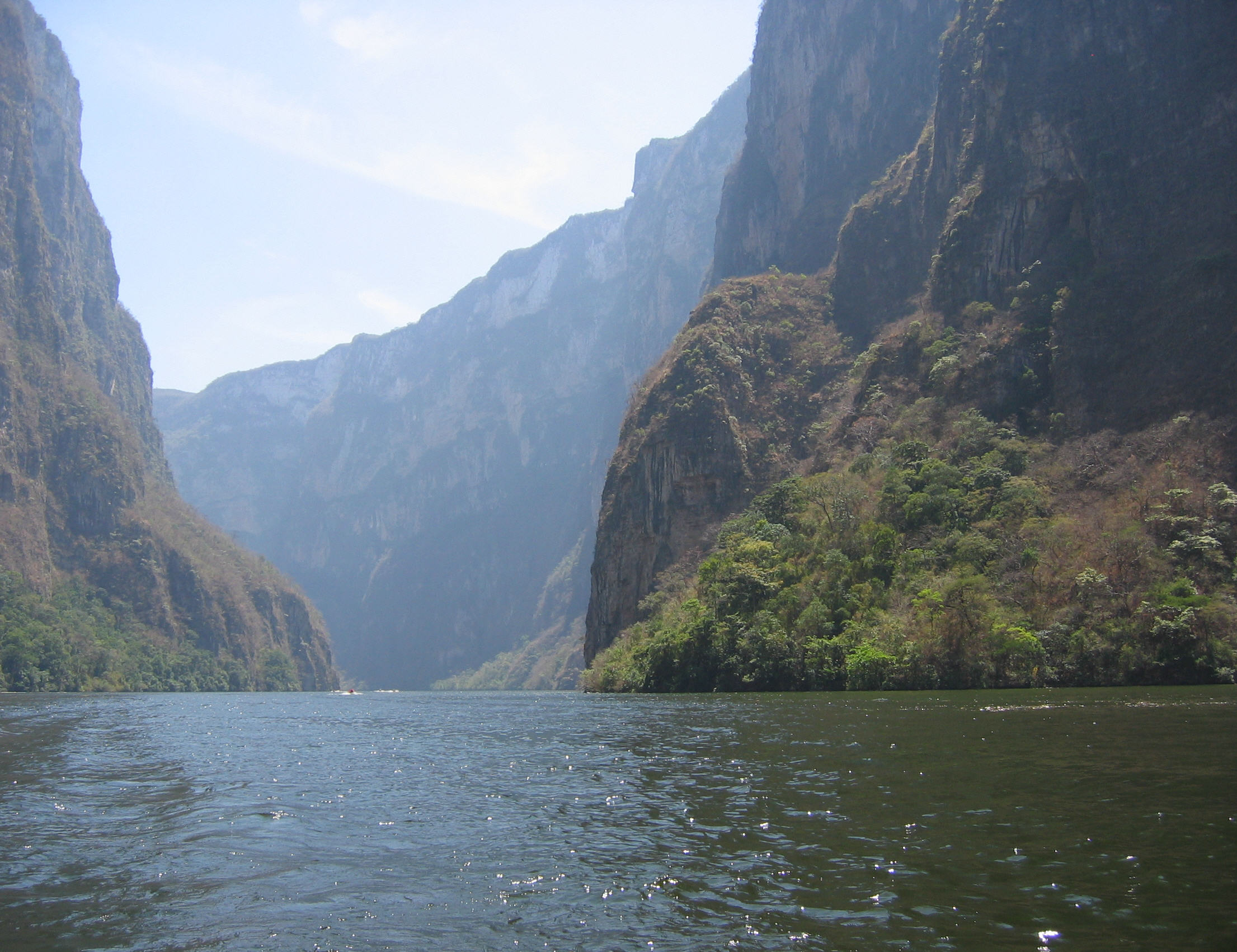 Photo taken by Poppy in March 2005